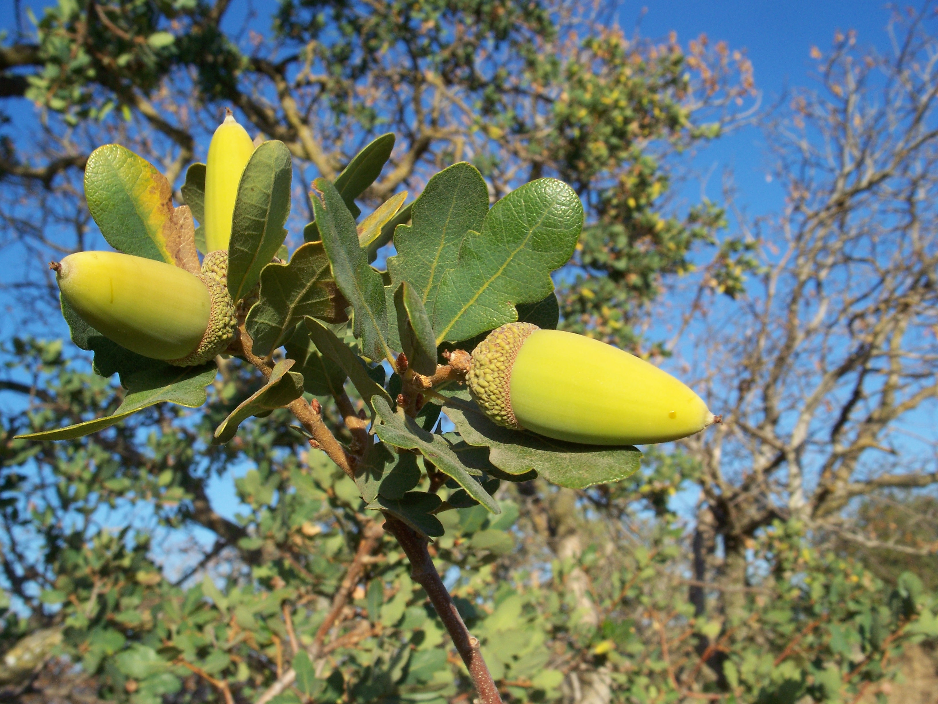 Blue Oak